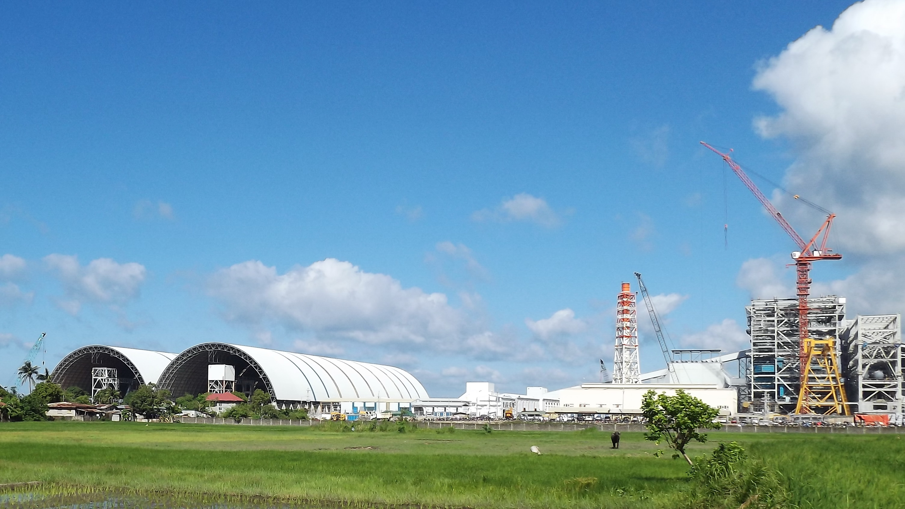 This project is BJMB roofing of coal storage for Power Plant in Batangas, Philippines, the shape is barrel shell , the structure’s full-width is 64.572m，clear span is 61m，full-length is 175m, height is 25.957m，construction area is 11300.1m2. The bottom chord of support elevation height is 4.5m.